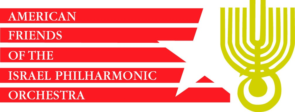 This is original artwork depiciting the American Friends of the Israel Philharmonic.